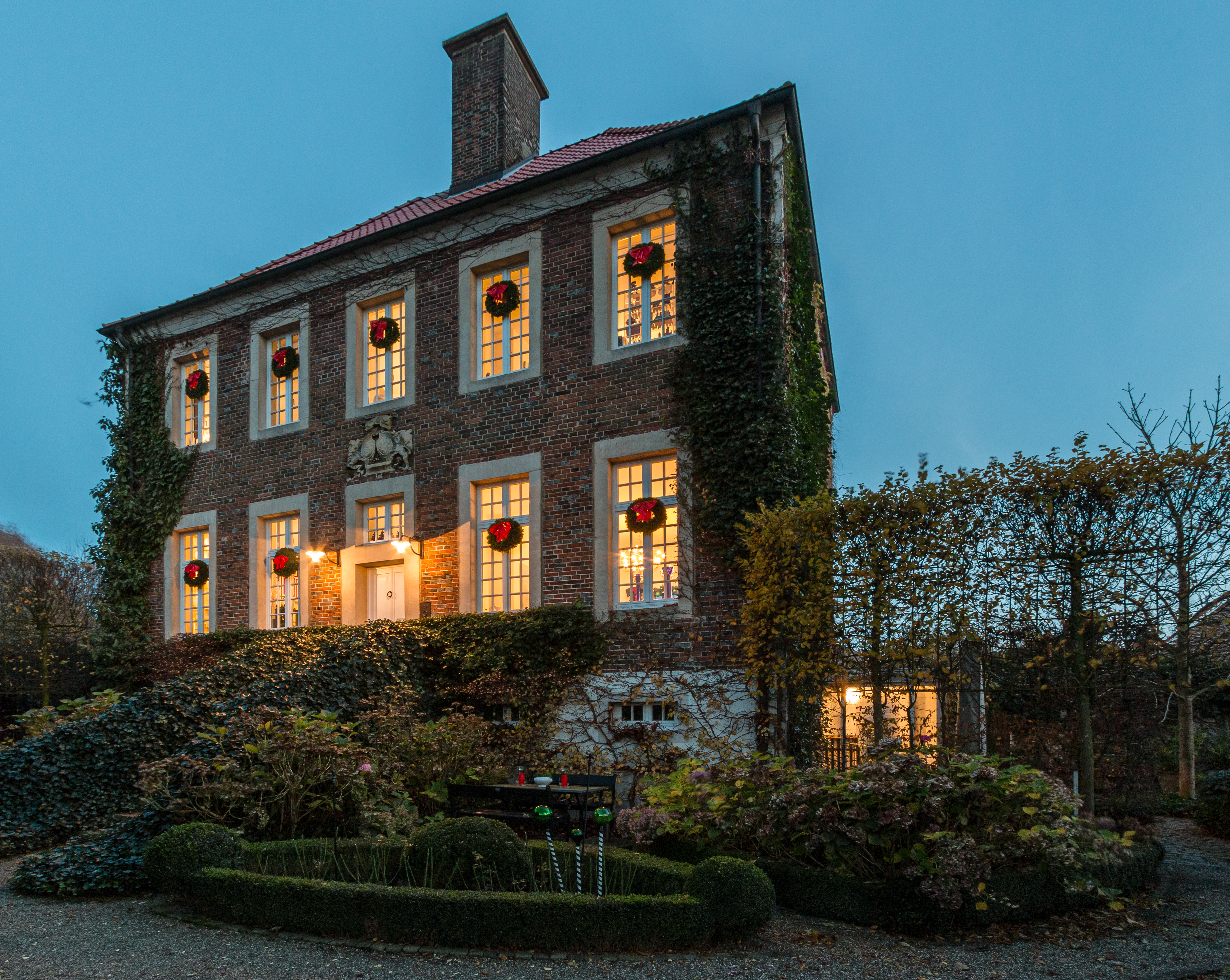 Osthoff Manor, Dülmen, North Rhine-Westphalia, Germany This image shows a heritage building in Germany, located in the North Rhine-Westphalian city Dülmen (no. 26).